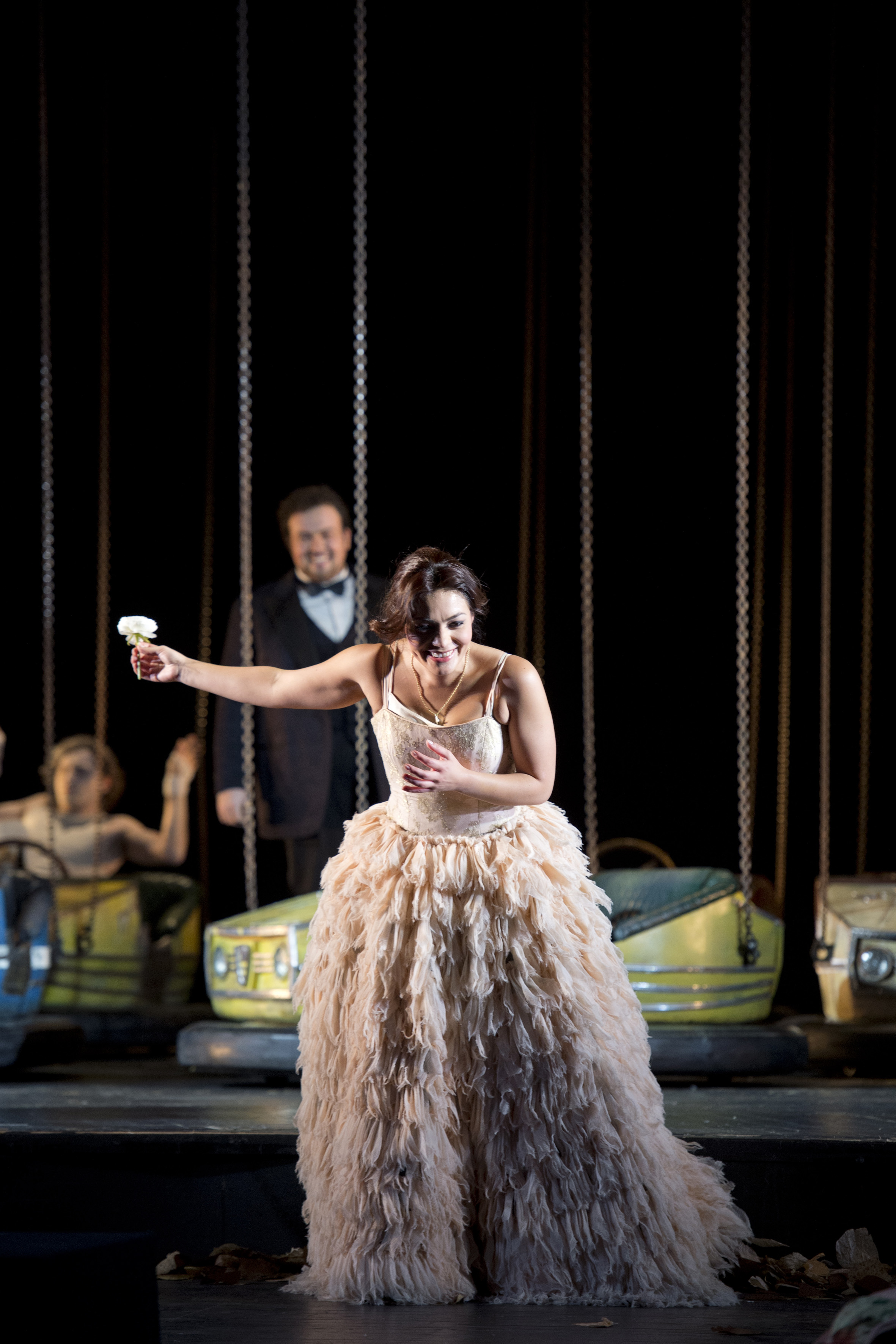 Production of La Traviata at Hamburgische Staatsoper 2013, stage photo: Ailyn Pérez as Violetta Valéry, Stefan Pop as Alfredo Germont.